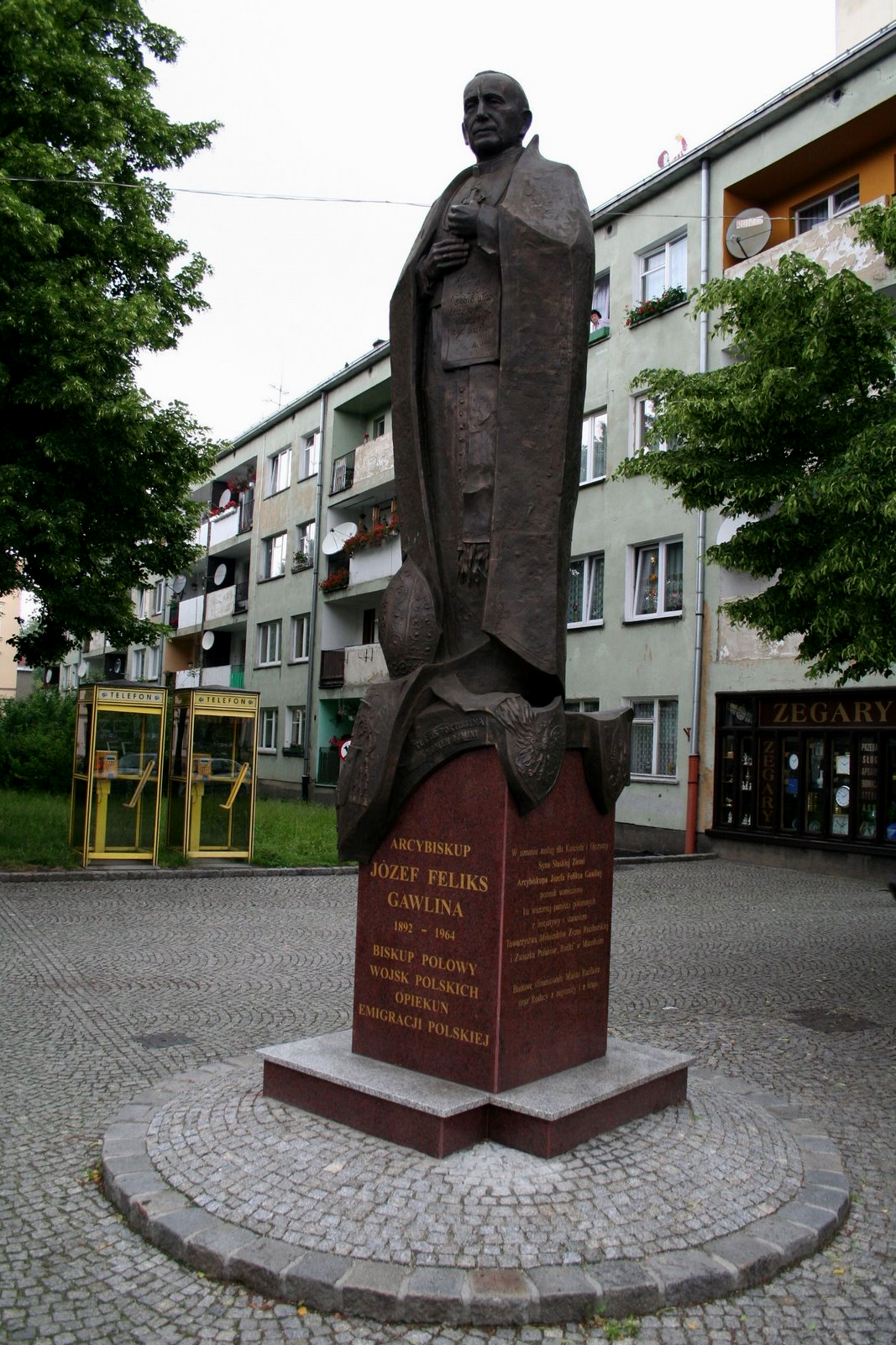 Monument to Archbishop Józef Klemens Gawlina.Racibórz;Poland